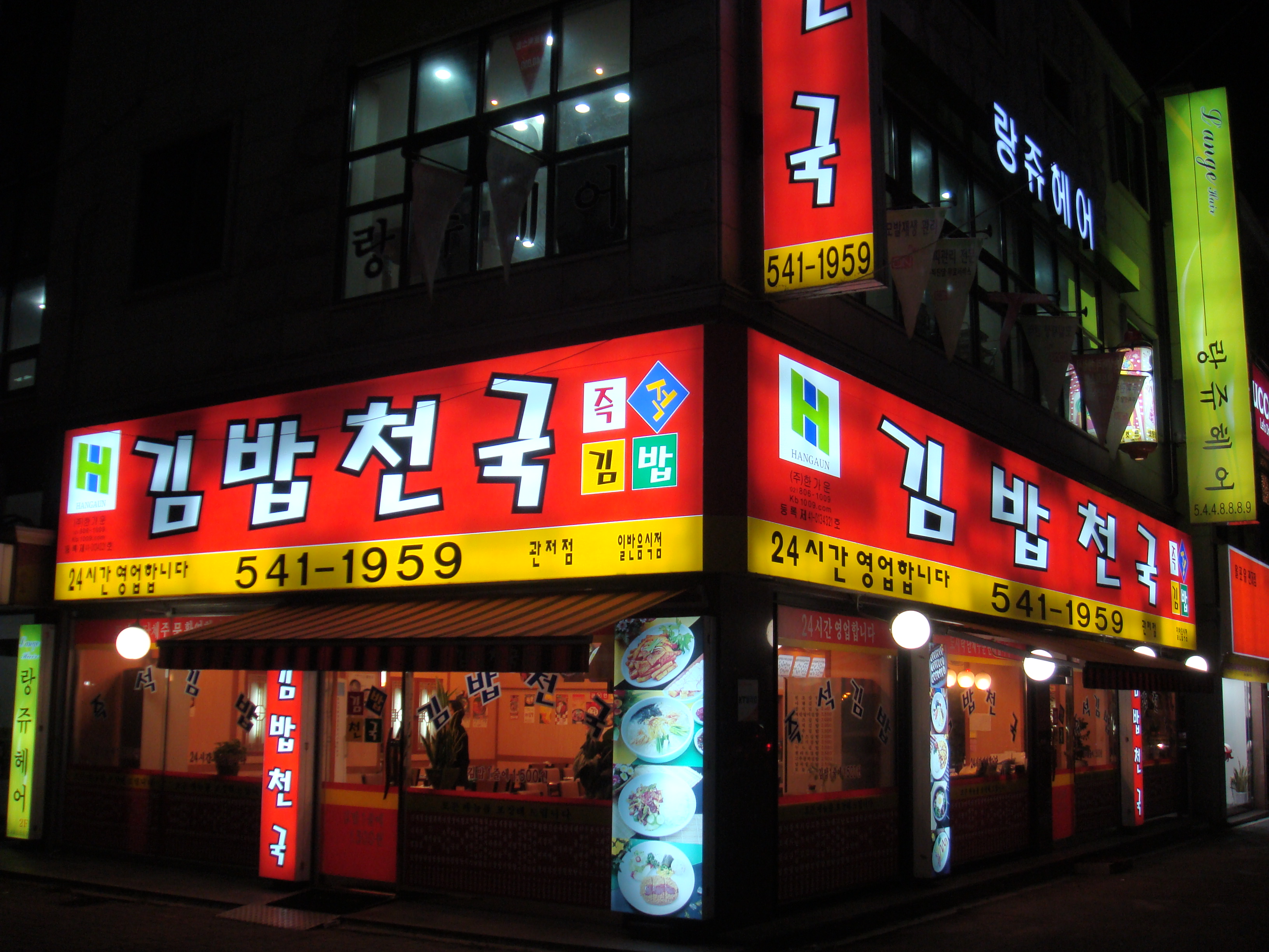 A franchise of Kimbap shop